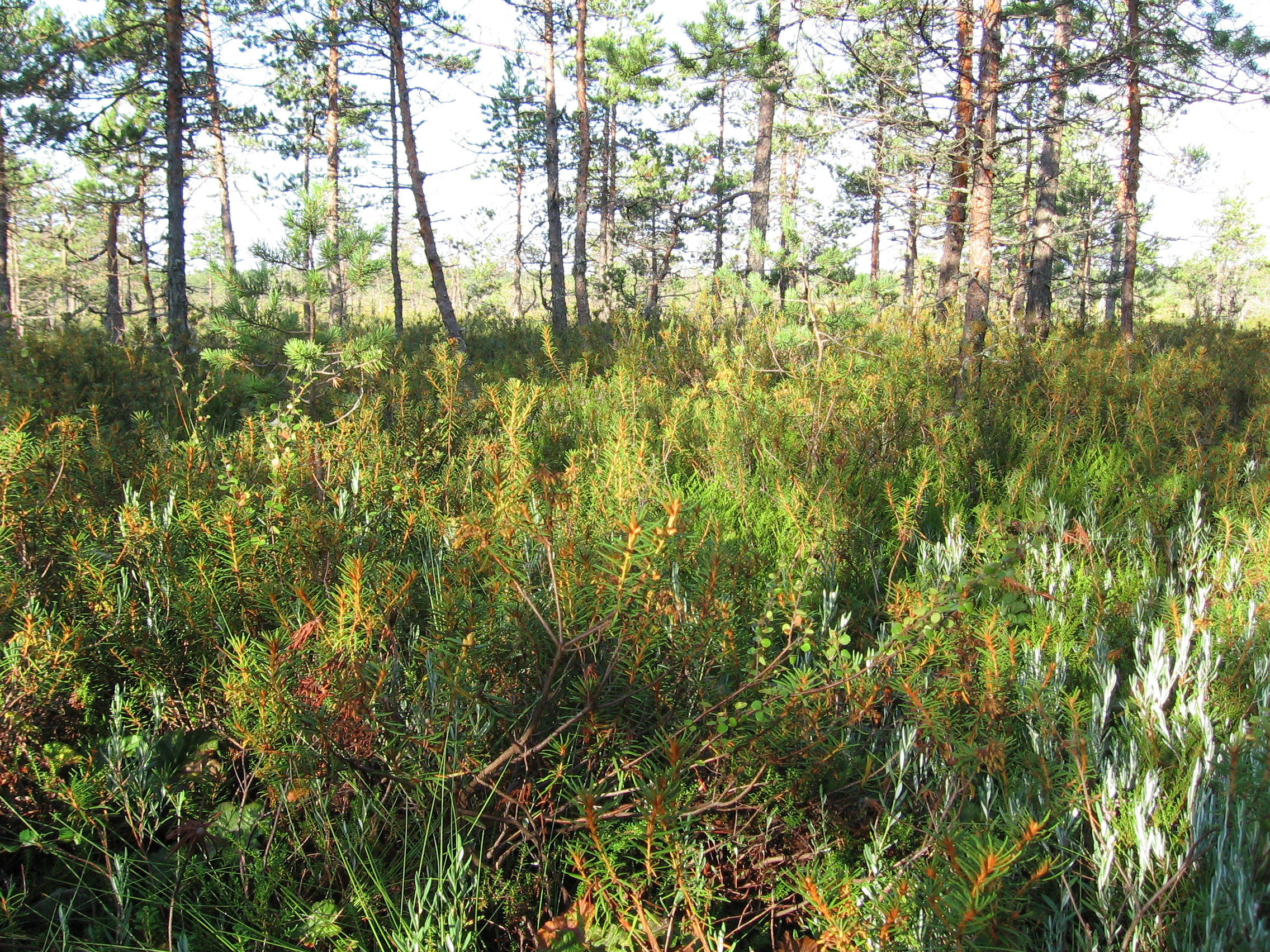 Räme (bog) in Finland